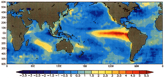 Chart of abnormal ocean surface temperatures [ºC] observed in December 1997 during the last strong El Niño.